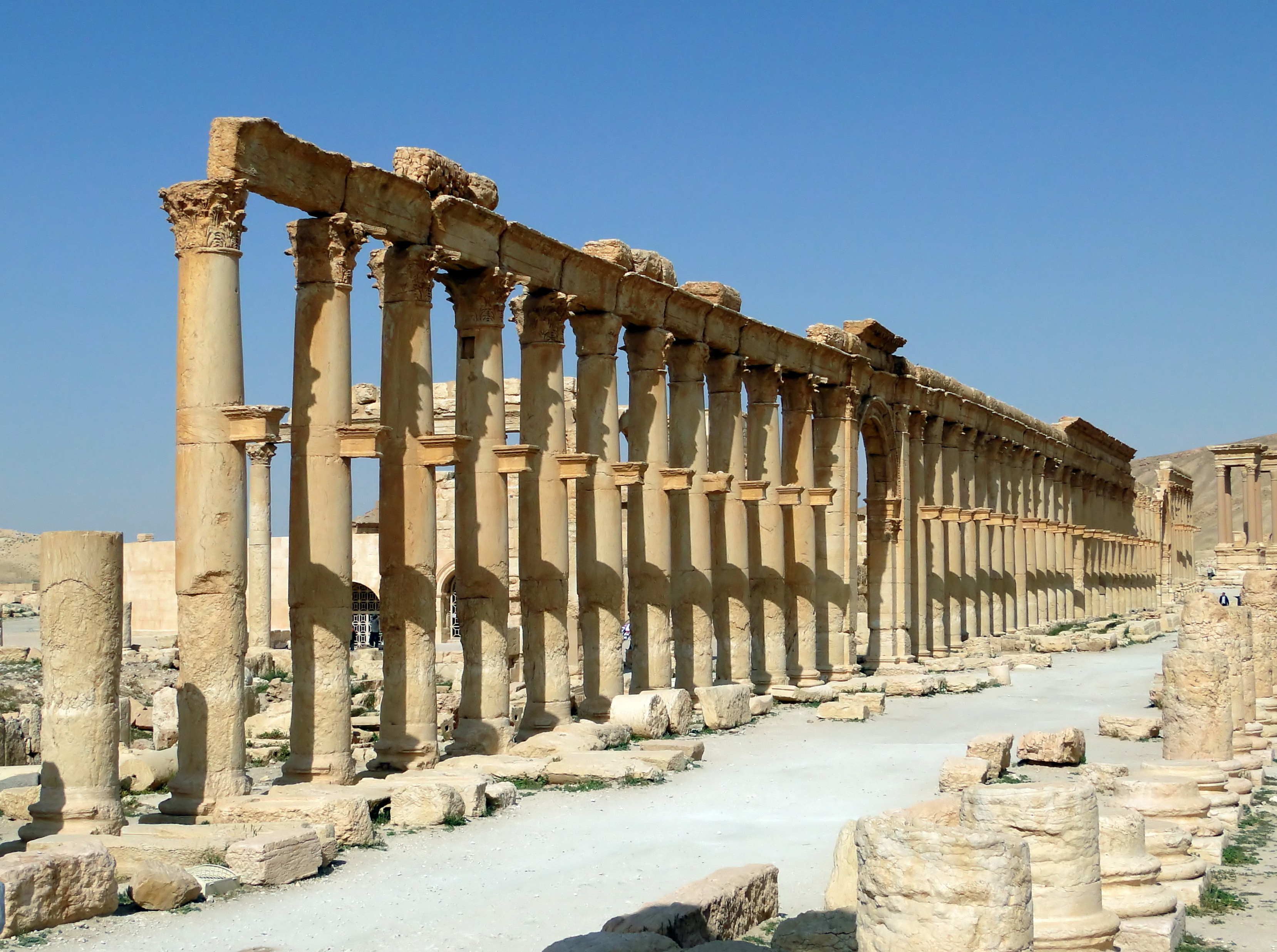 The Decumanus Maximus on the site of Palmyra, Syria